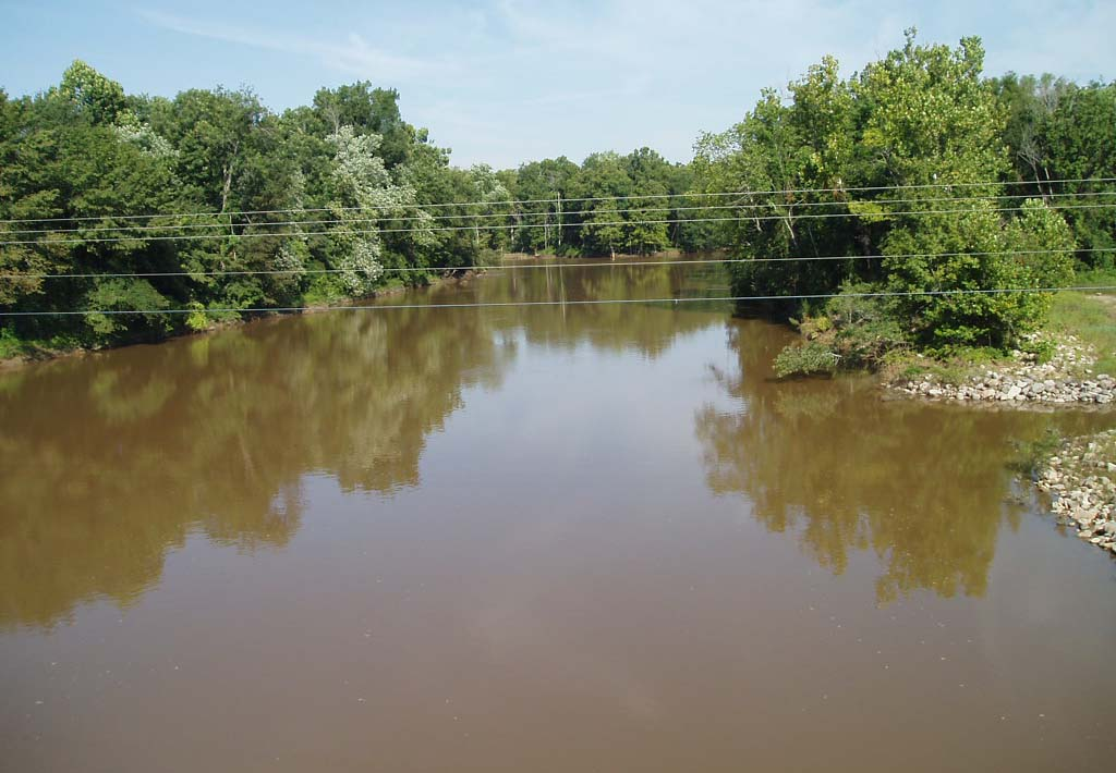 The Hatchie River at Rialto, Tennessee, on the border of Tipton LauderdaleCounties